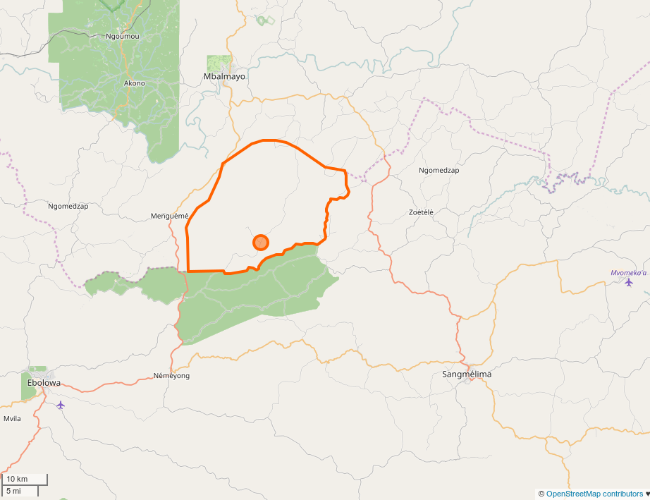 Akoeman in Cameroonː City boundaries with OSM. This map may be incomplete, and may contain errors. Don't rely solely on it for navigation.